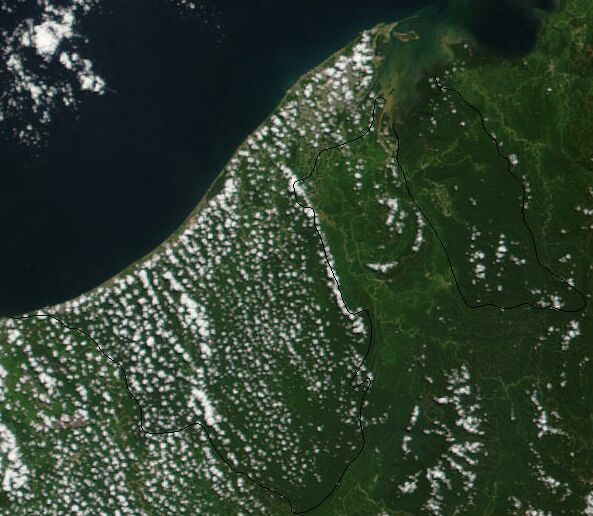 Satellite image of Brunei in May 2002.